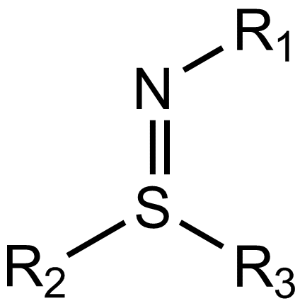 Basic structure of sulfilimine functional group